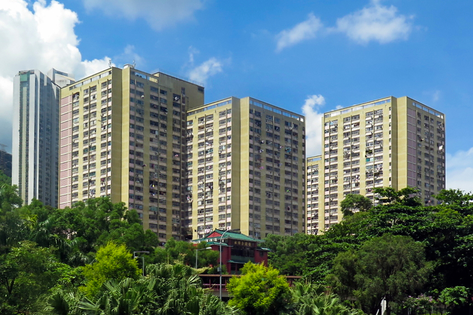 Chuk Yuen South Estate Twin Tower